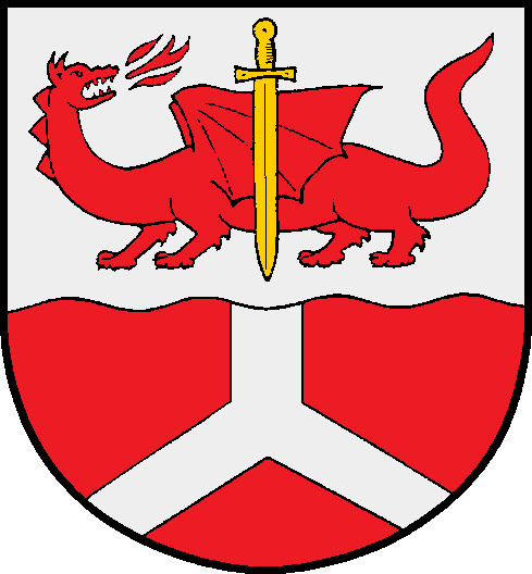 Coat of arms of the municipality Jevenstedt in Schleswig-Holstein, Germany.